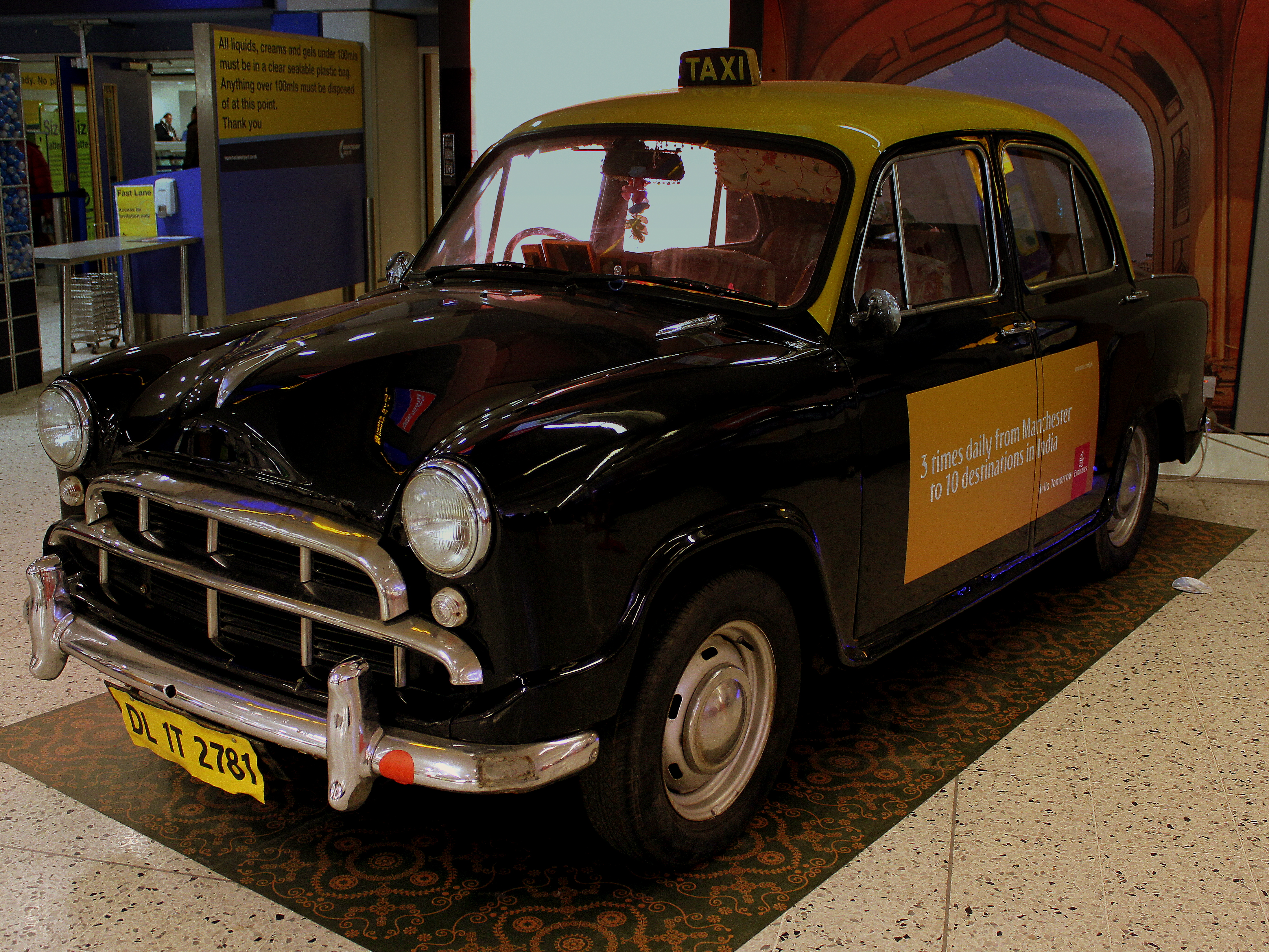 Morris Oxford, posing as a Hindustan Ambassador at Manchester Airport in December 2012, promoting Emirates airlines.